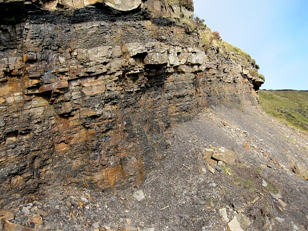 Mining operations took place on Slieve Anierin. A small seam of coal seems to be present at the top edge of the rocks.